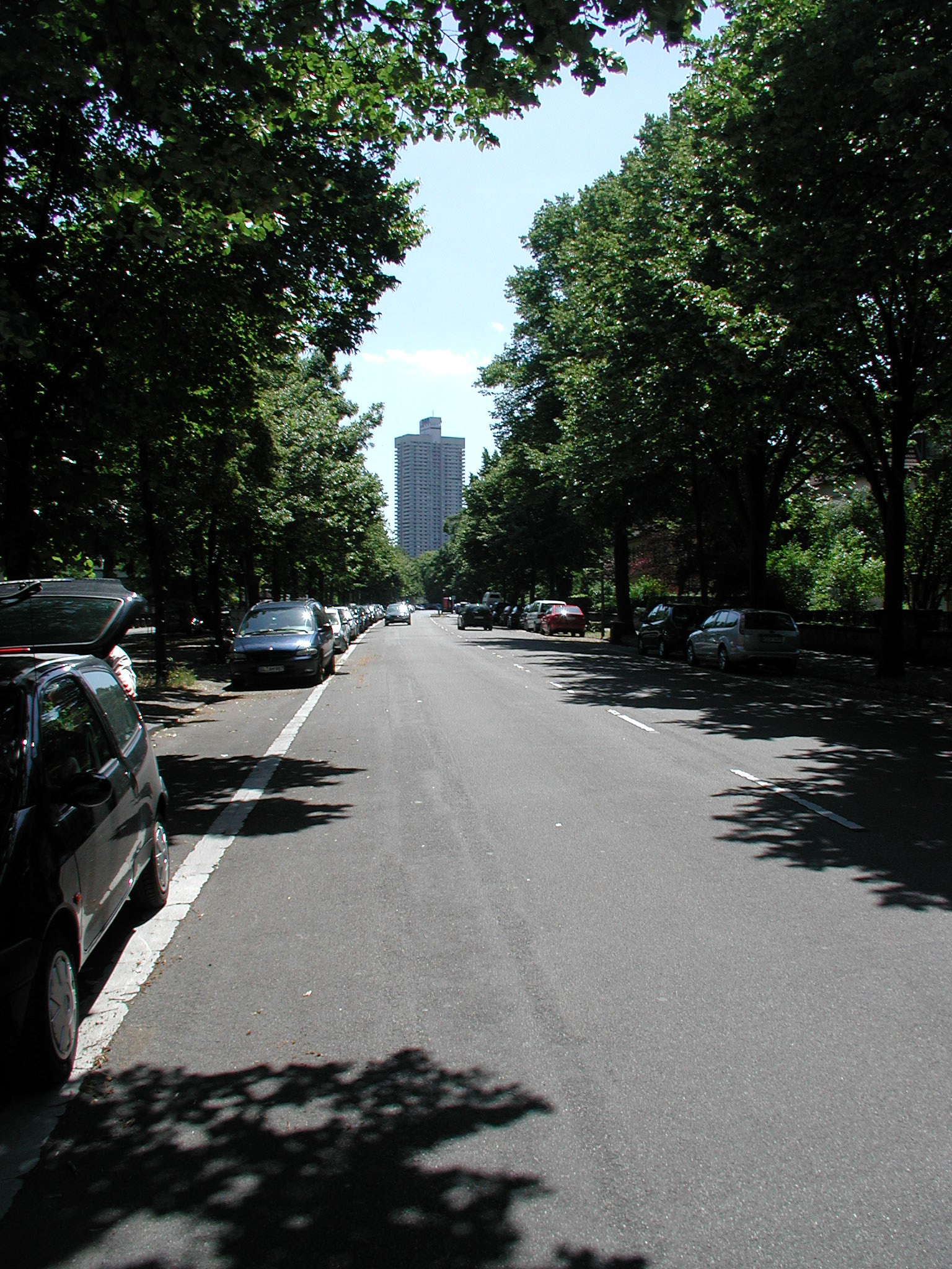 Cologne, Riehler-Gürtel against the background of "Colonia-Haus"